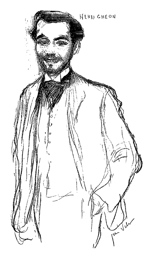 French writer Henri Ghéon (1875-1944) by Jean Veber (1868-1928)